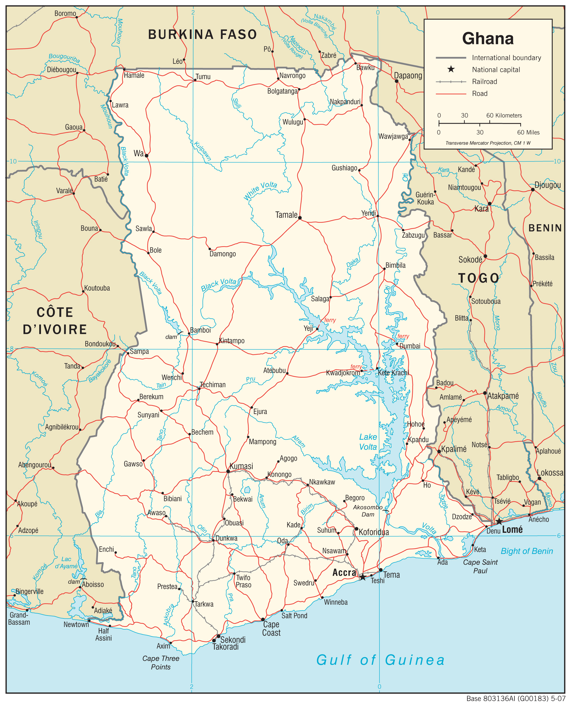 Transport system in Ghana, 2007.